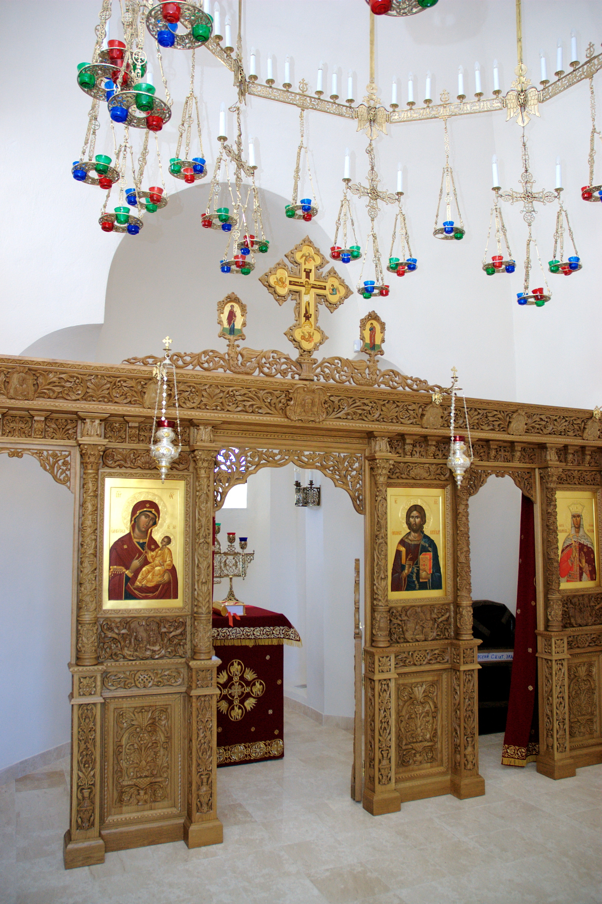 Valaam Monastery. St. Vladimir Skeet. Church of the Holy Martyr Ludmila.